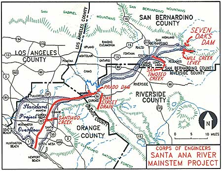 Map of the 100-year floodplain of the Santa Ana river with flood control structures labelled